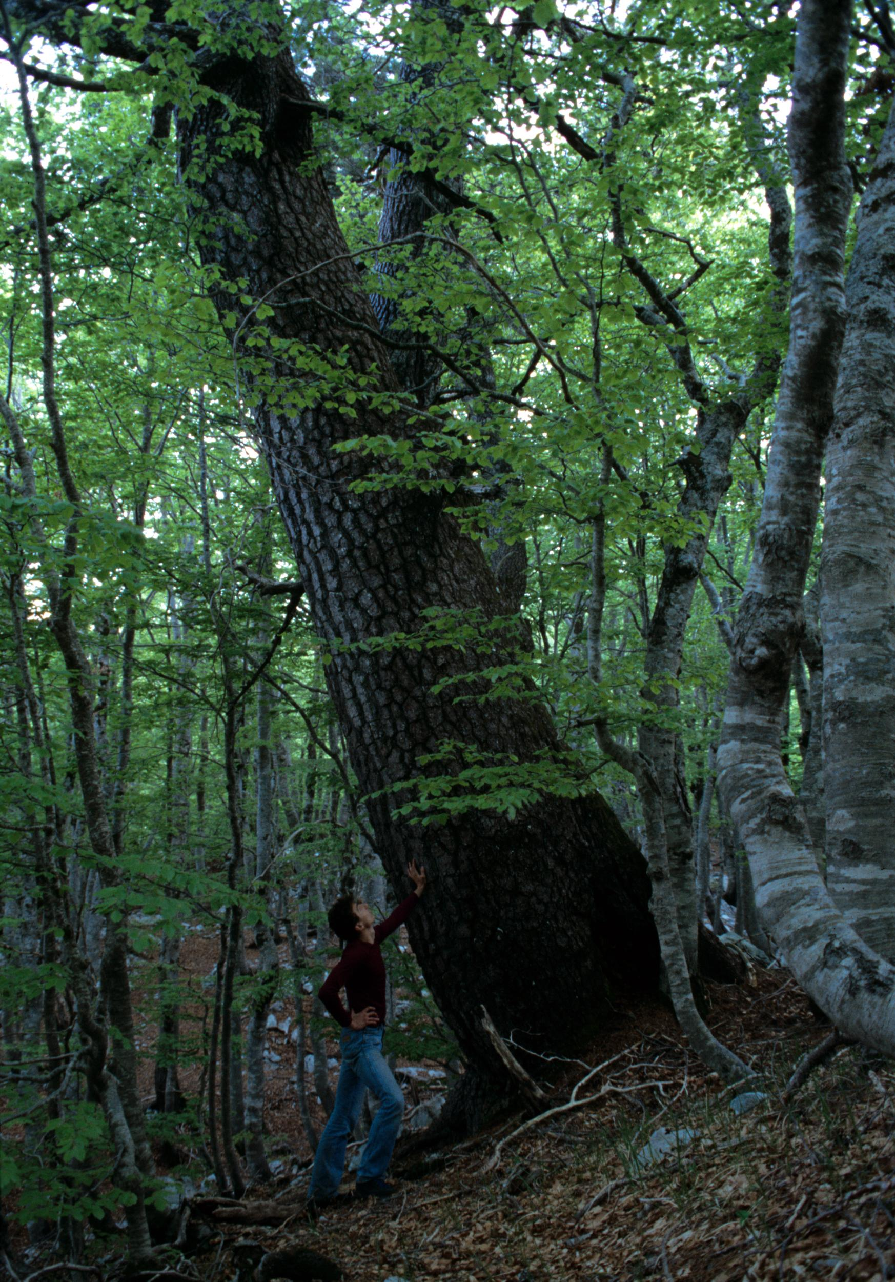 Bosnian pine at 1500 m in Beech forests at Orjen. Copyright (c) 2002 Pavle Cikovac.